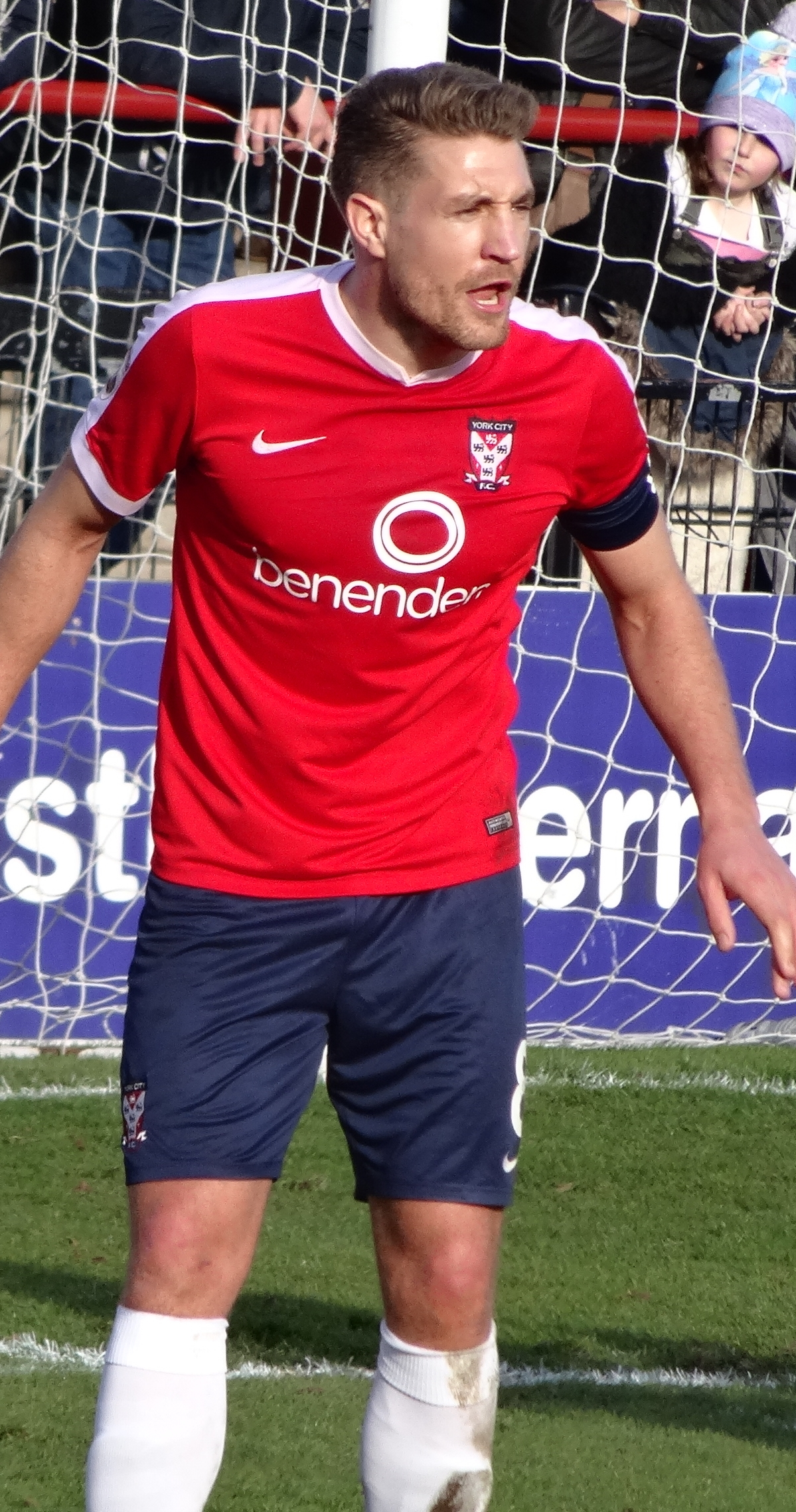 Simon Heslop playing for York City against Eastleigh at Bootham Crescent, York on 4 March 2017